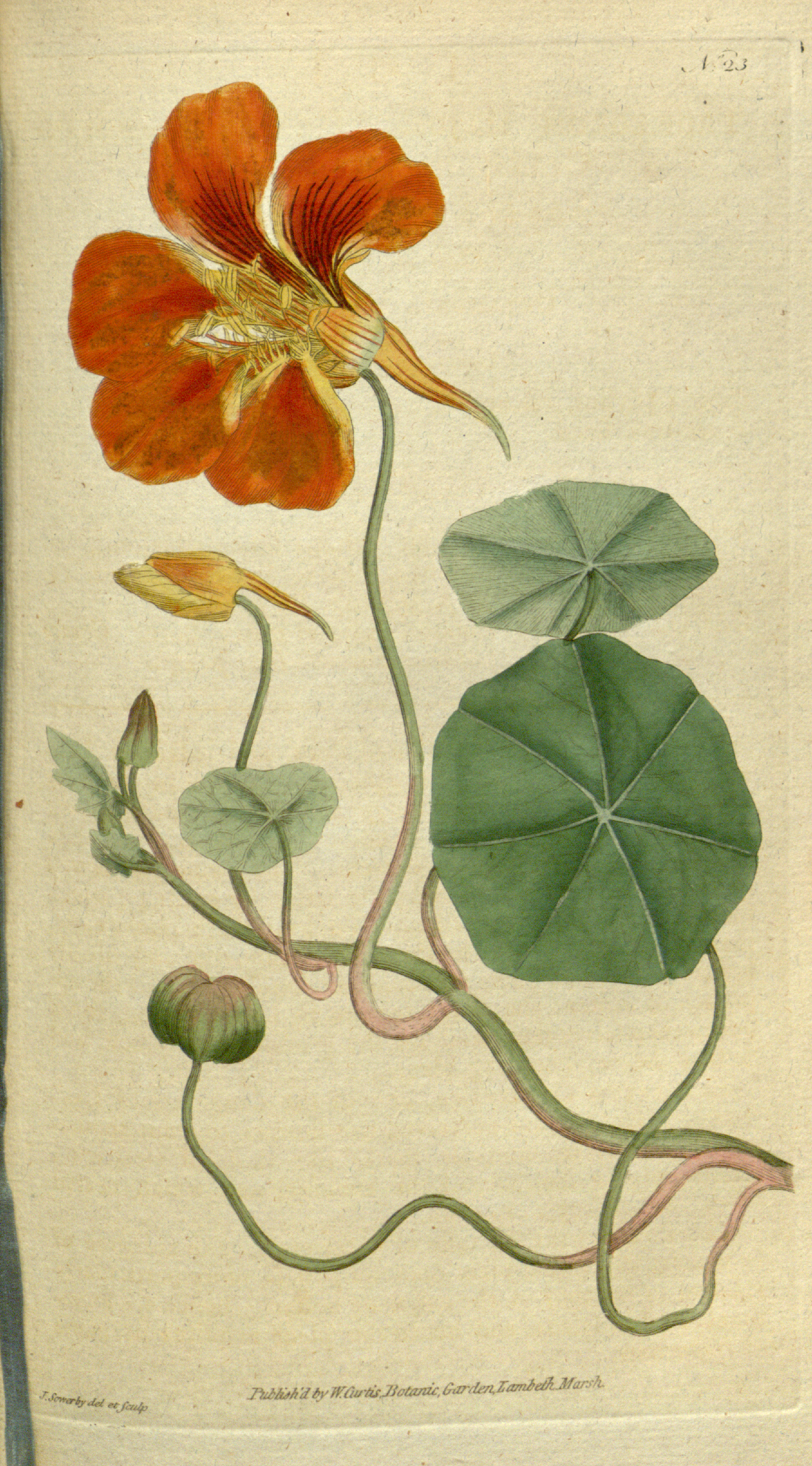 This is Plate 23 from The Botanical Magazine, Volume 1. Tropaeolum majus